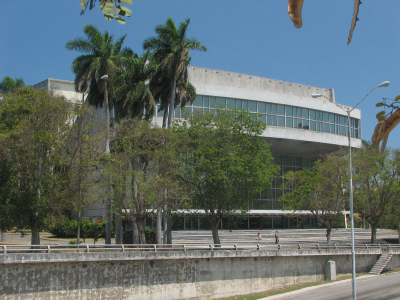 my stuff